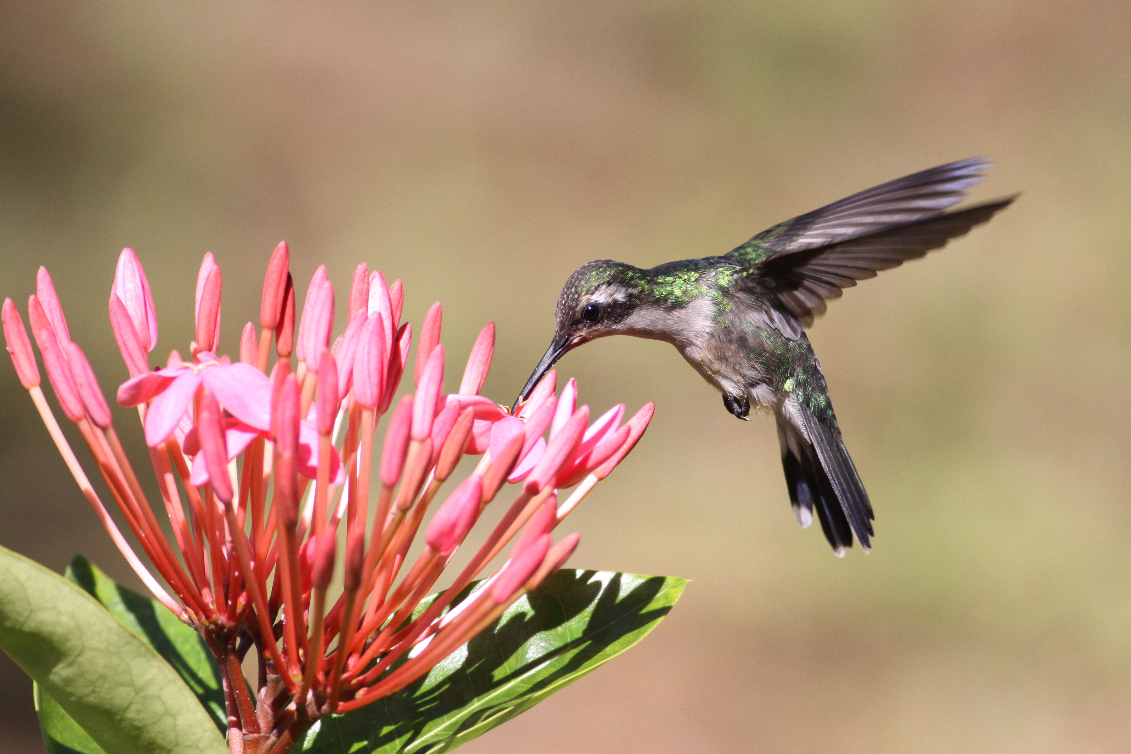 A female Canivet's Emerald pollinating an Ixora sp. at Mahogany Bay on Roatan Island, Honduras.